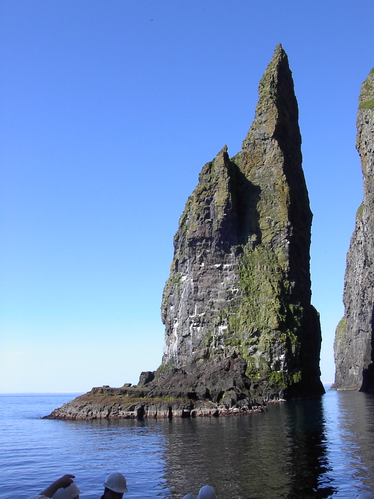 The 53 meter high Saksunadrangur at Vestmannabjørgini on Streymoy, Faroe Islands